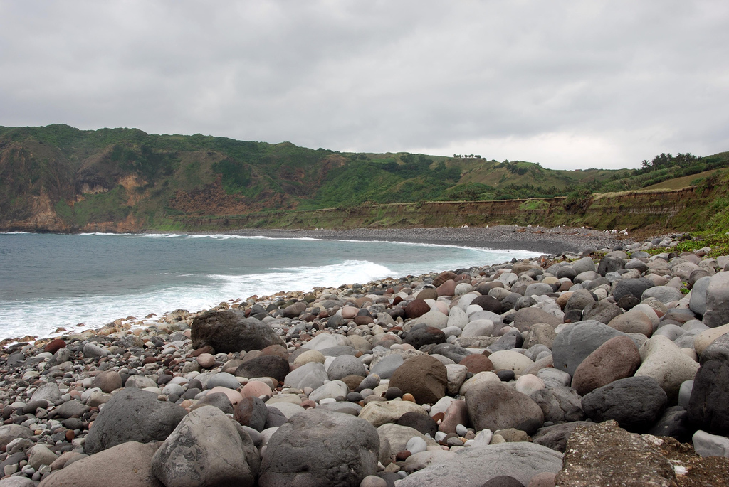 Rocky shore in Valuga Beach in Batanes